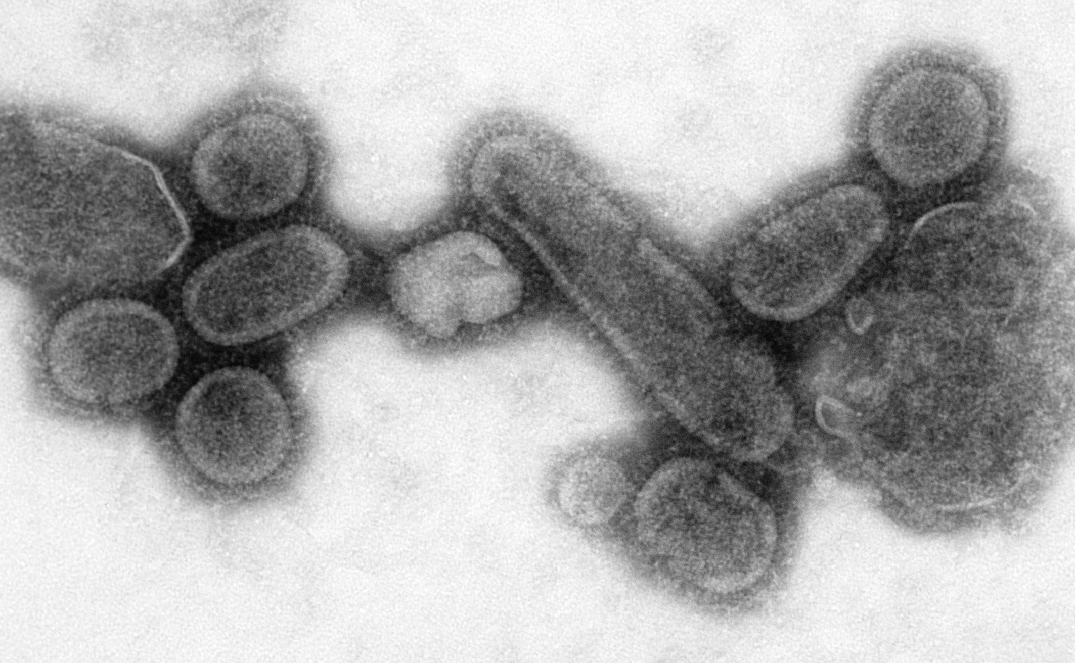 This negative stained transmission electron micrograph (TEM) showed recreated 1918 influenza virions that were collected from the supernatant of a 1918-infected Madin-Darby Canine Kidney (MDCK) cell culture 18 hours after infection. In order to sequester these virions, the MDCK cells were spun down (centrifugation), and the 1918 virus present in the fluid was immediately fixed for negative staining. Dr. Terrence Tumpey, one of the organization’s staff microbiologists and a member of the National Center for Infectious Diseases (NCID), recreated the 1918 influenza virus in order to identify the characteristics that made this organism such a deadly pathogen. Research efforts such as this, enables researchers to develop new vaccines and treatments for future pandemic influenza viruses. The 1918 Spanish flu epidemic was caused by an influenza A (H1N1) virus, killing more than 500,000 people in the United States, and up to 50 million worldwide. The possible source was a newly emerged virus from a swine or an avian host of a mutated H1N1 virus. Many people died within the first few days after infection, and others died of complications later. Nearly half of those who died were young, healthy adults. Influenza A (H1N1) viruses still circulate today after being introduced again into the human population in the 1970s.